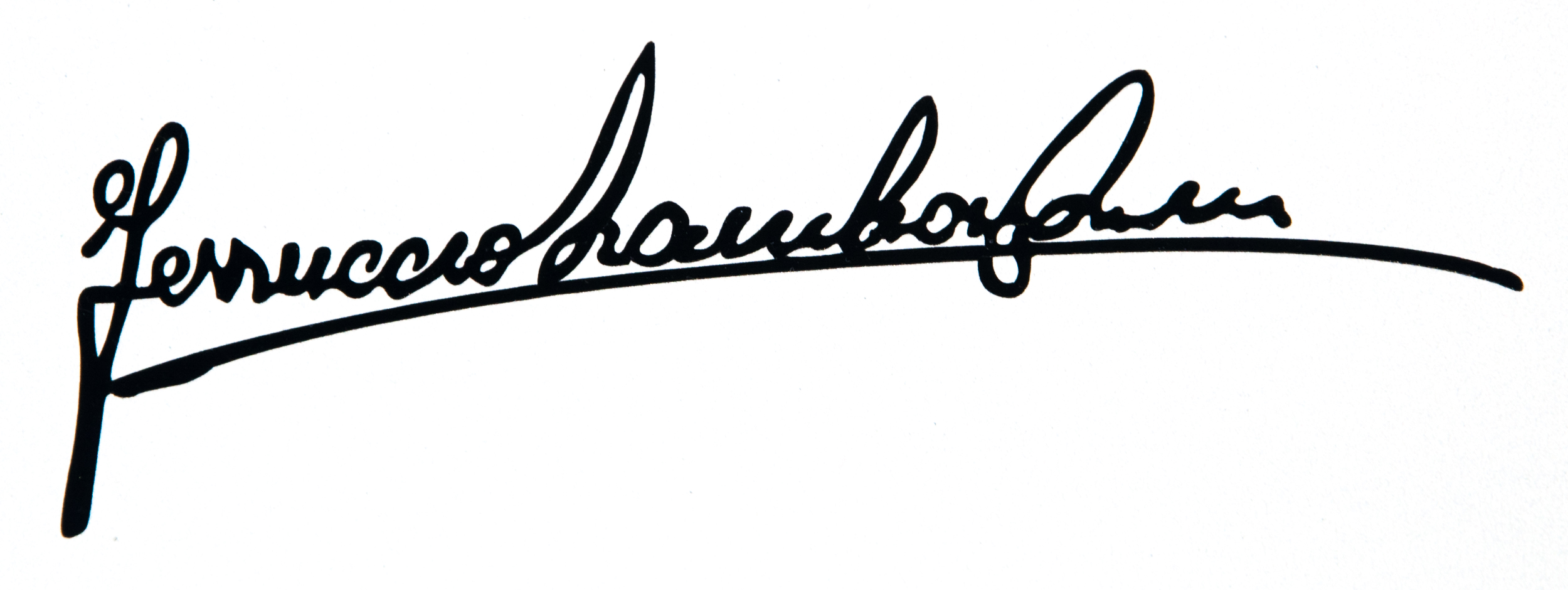 Autograph of Ferruccio Lamborghini